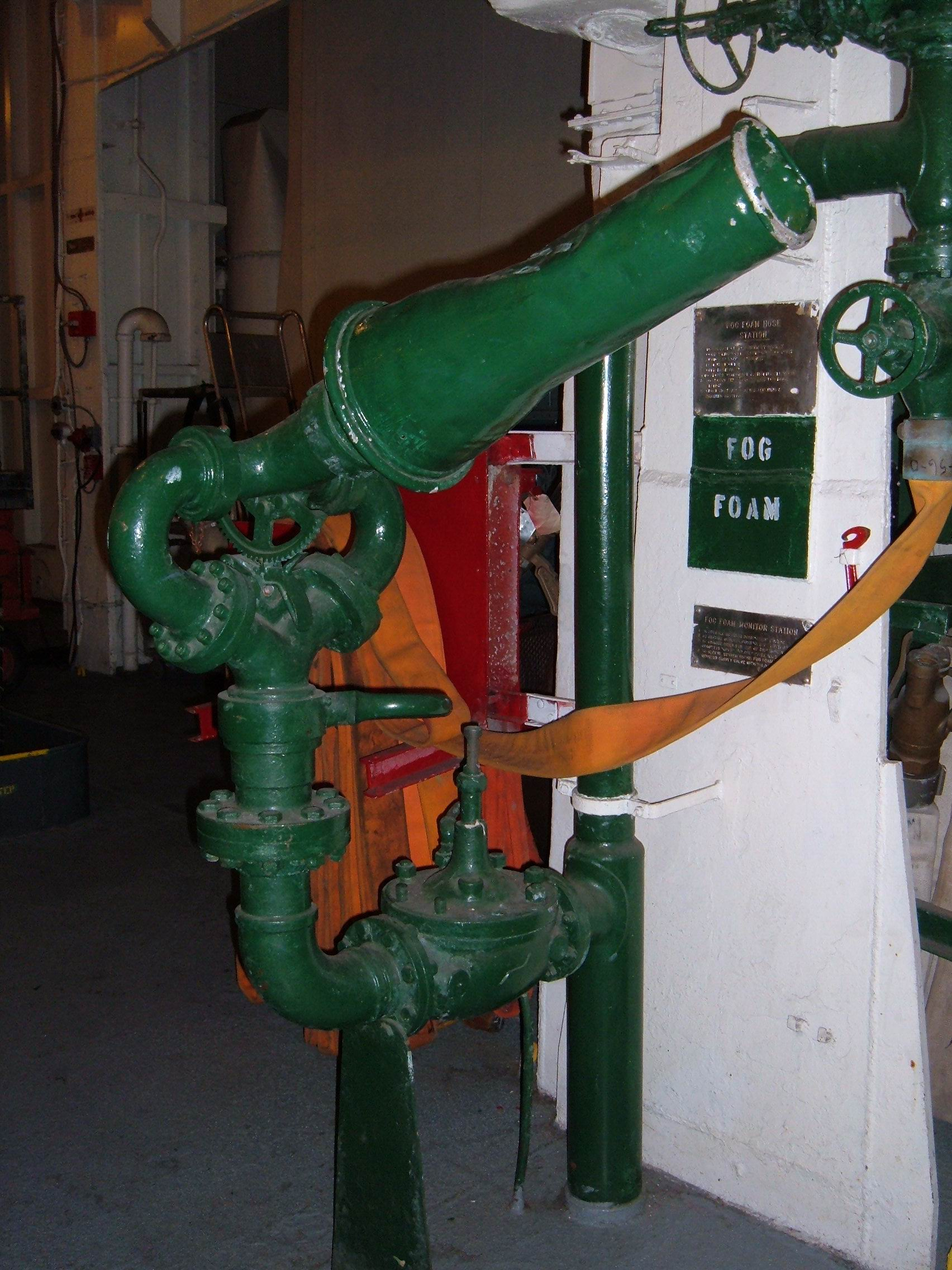 A fog foam firefighting station on the Hangar Deck of the USS Hornet (CV-12), now the USS Hornet Museum.